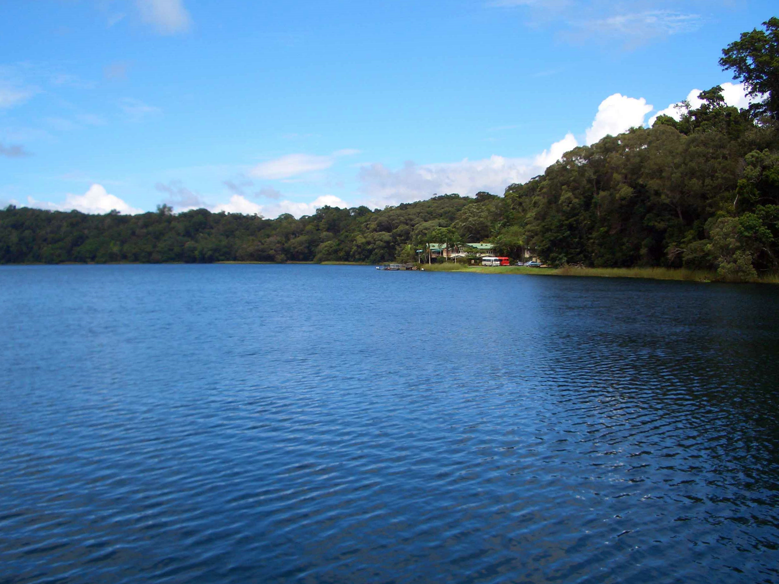 Photo of Lake Barrine, Queensland, Australia, taken from the lake cruise.